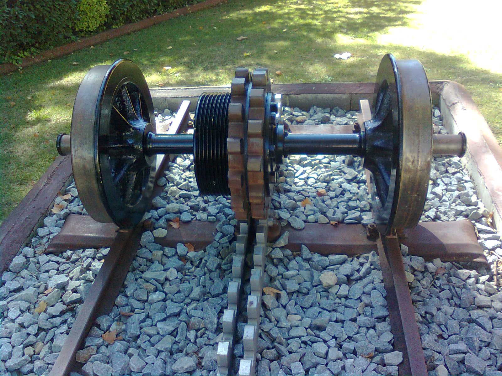 Mechanism of rail traction Mountain (zip).